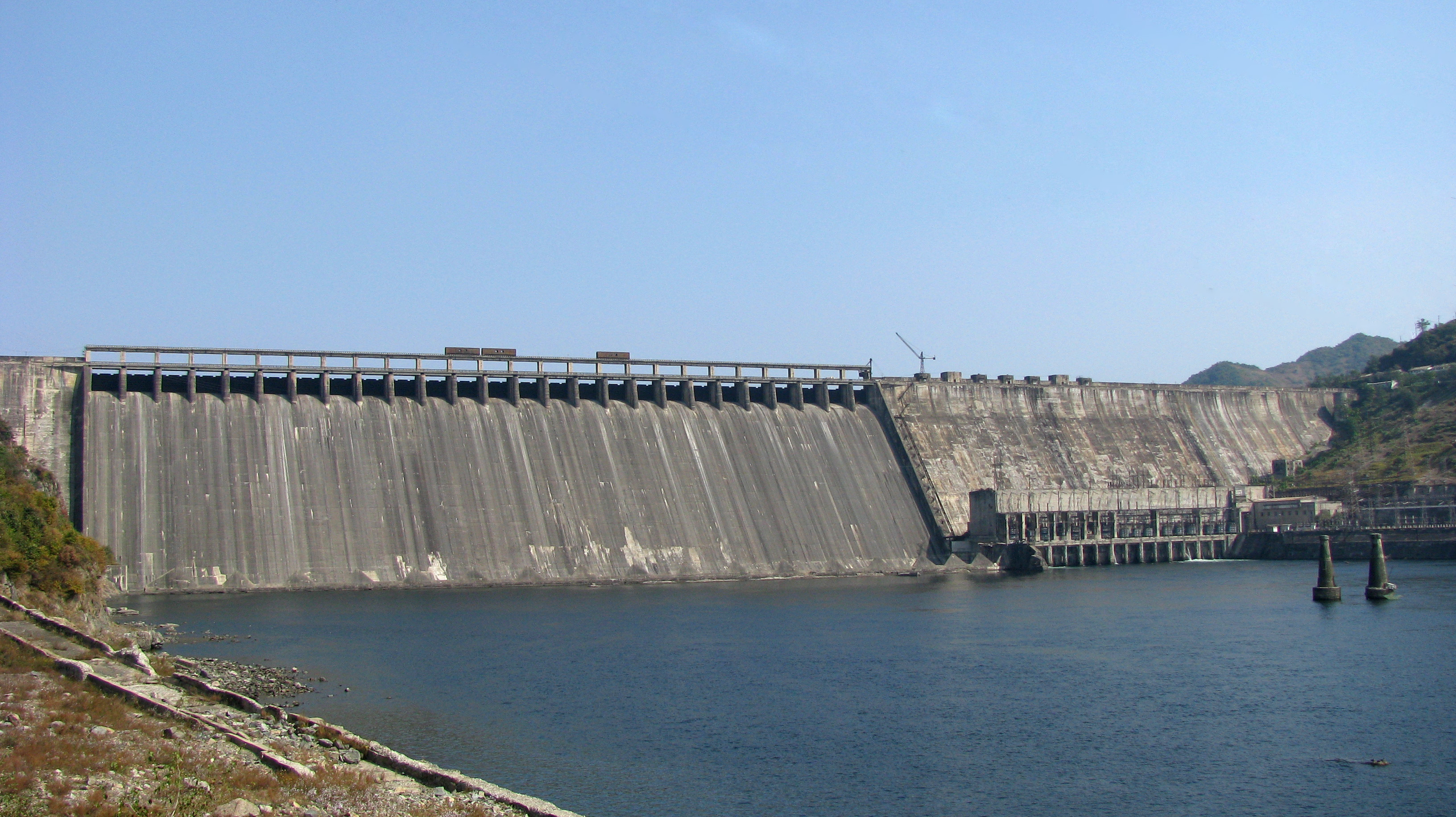 The Supung Dam on the Yalu River bordering China and North Korea.